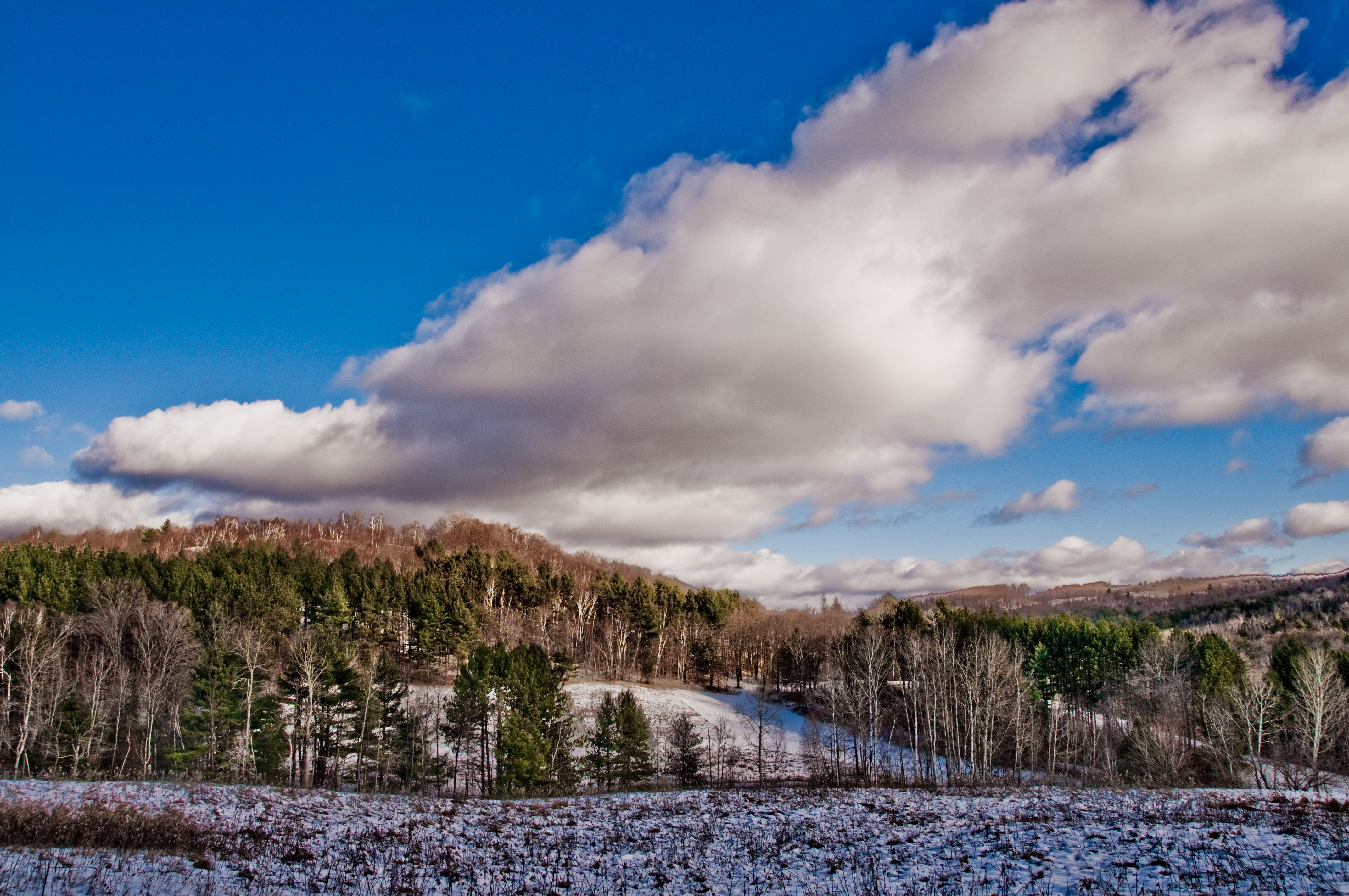 Outside South Royalton